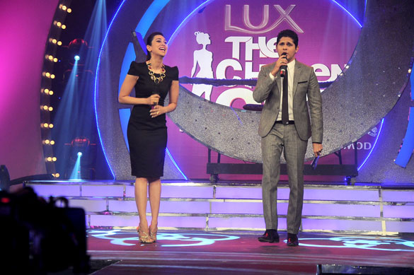 Karisma KapoorVishal Malhotra on the finale of UTV Stars Lux The Chosen One